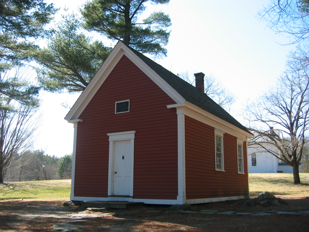 Taken by Dudesleeper. The plaque above the door reads: The Redstone School 1798 School District No. 2 Sterling, Mass Photo available upon request.